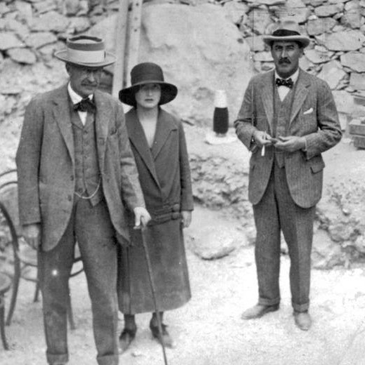 Howard Carter, Lord Carnarvon and his daughter Lady Evelyn Herbert at the steps leading to the newly discovered tomb of Tutankhamen, November 1922.